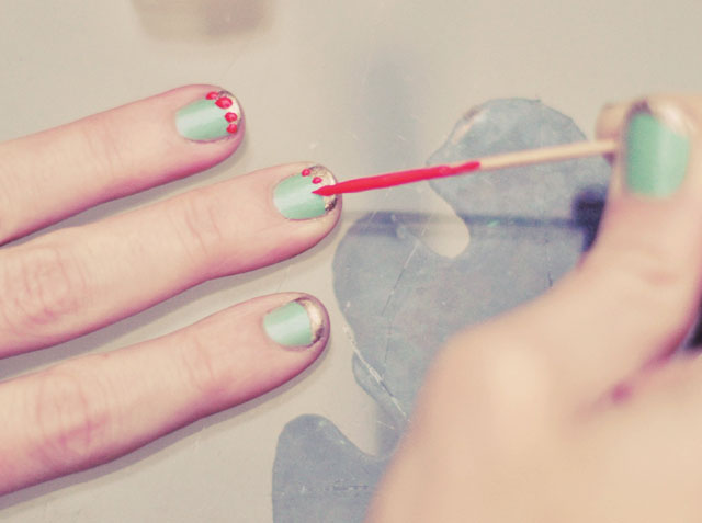 Using a toothpick, carefully dab on your dots... for a more mid-century modern look, make them narrow and pointed, similar to teardrops. For perfect dots, use a nail art dotter or nail pen.